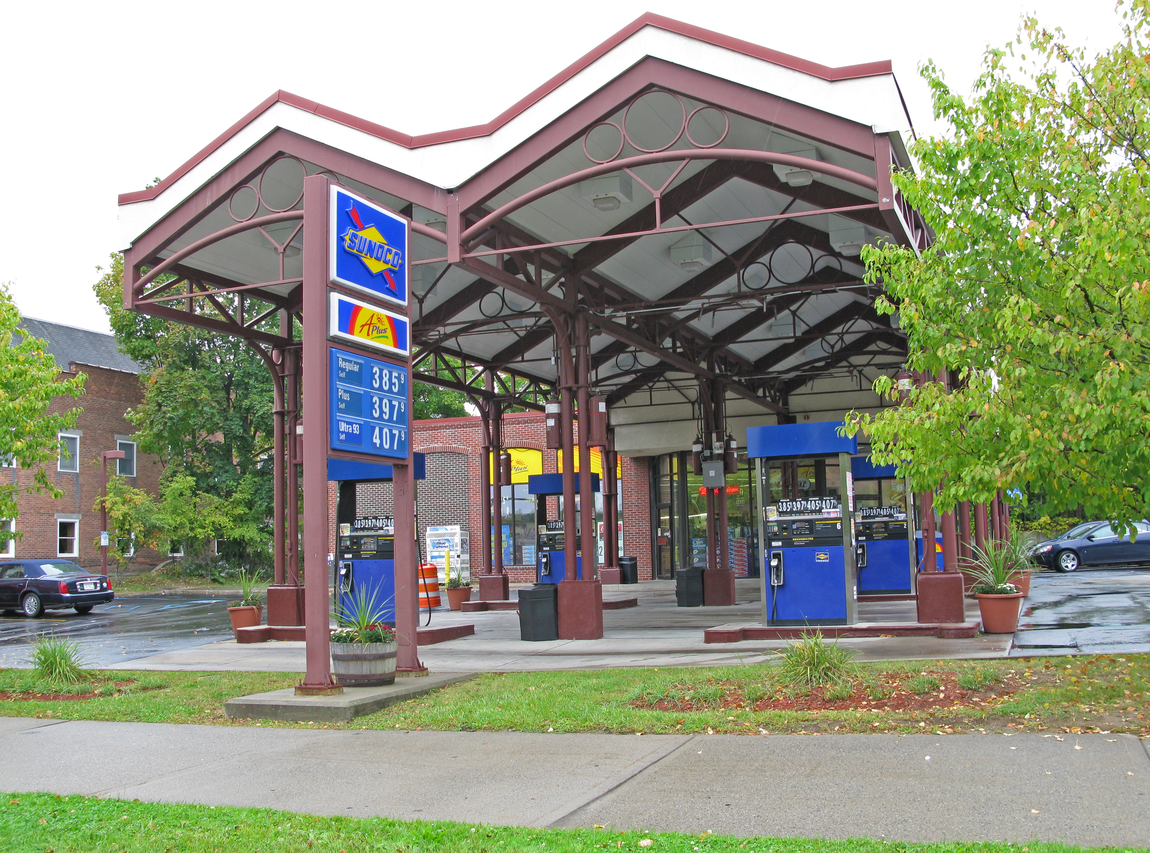 Description: This Sunoco gas station on Saratoga Springs' main street, Broadway, features a unique canopy design.